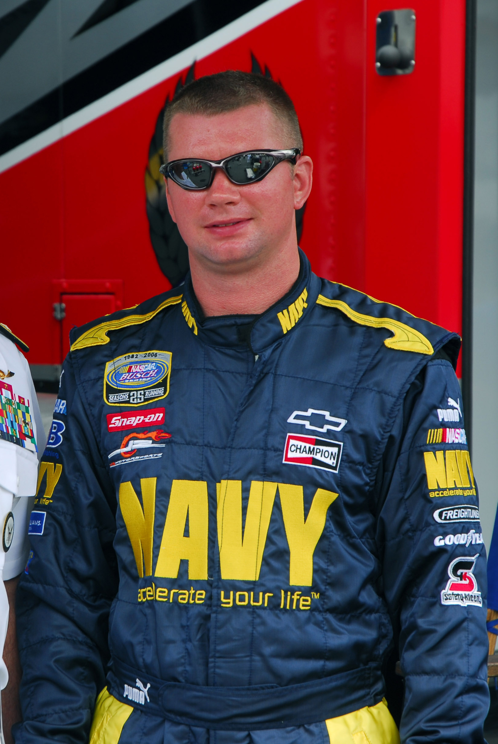 060923-N-5608F-004 – U.S. Navy No. 88 Navy “Accelerate Your Life” Chevrolet Monte Carlo NASCAR driver, Shane Huffman poses before the Dover International Speedway Busch Series race. (RELEASED)